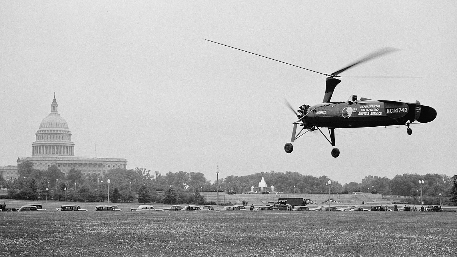 Title: Shuttle mail delivery demonstrated. Washington, D.C., May 19. The feasibility of a shuttle airmail service was demonstrated here today as part of National Airmail Week when an autogyro, piloted by John Miller, landed on the city post office grounds with a cargo of mail from the branch post office at Washington airport. The U.S. Capitol can be seen in the background, 5/19/38